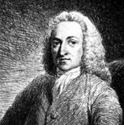 Gowin Knight (10 September 1713 – 8 June 1772) was an English physicist who, in 1745, discovered a process for creating strongly magnetized steel. He also served as the first principal librarian of the British Museum